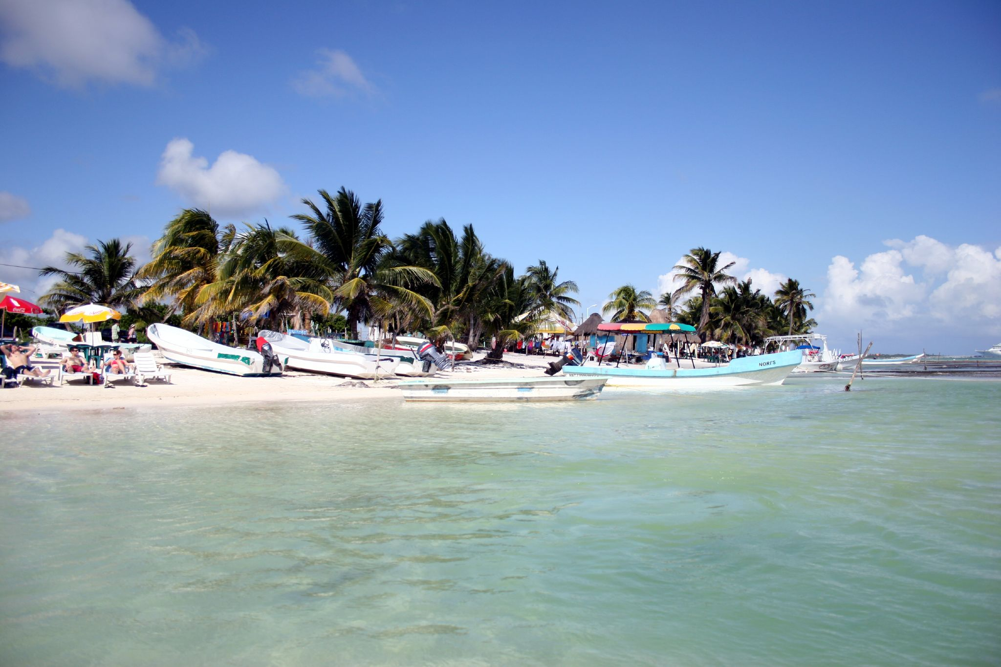 Playa Licensing